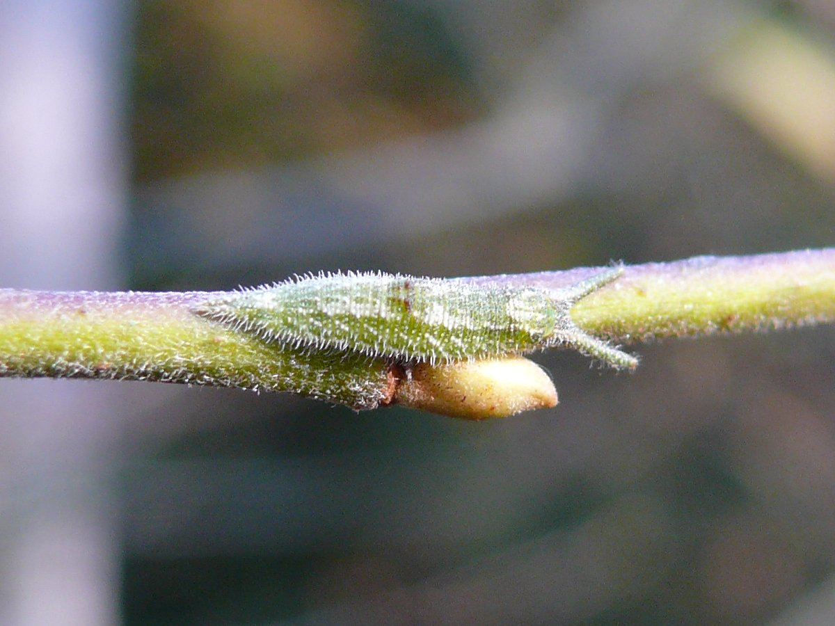 Young caterpillar of Purple Emperor in October Aufgenommen bei einer Exkursion des Arbeitskreises Schmetterlinge der Kreisgruppe München beim Landesbund für Vogelschutz (LBV).